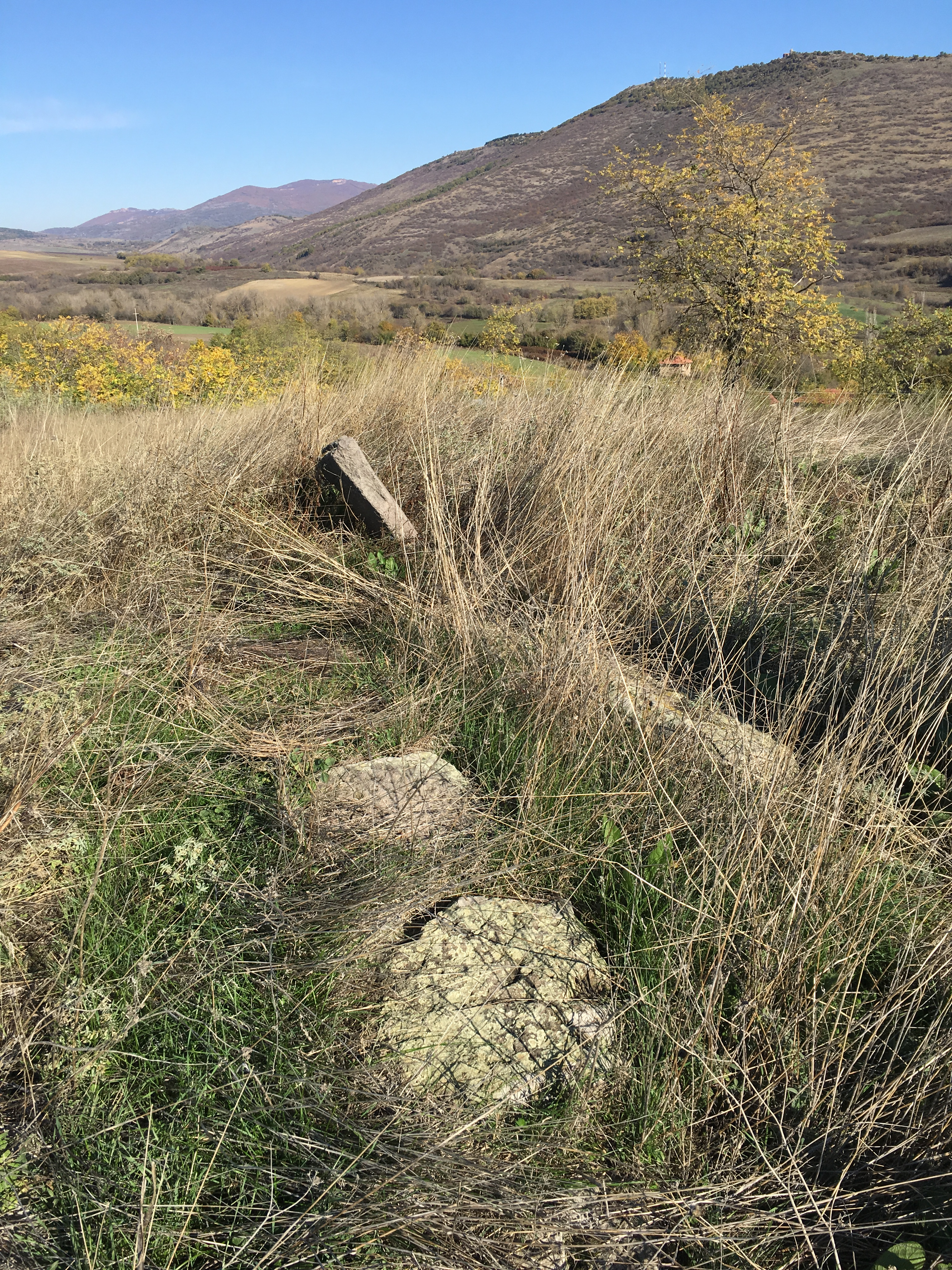 Fragments of Roman building in the village of Puzderci, Zletovo-Probištip Region, Macedonia